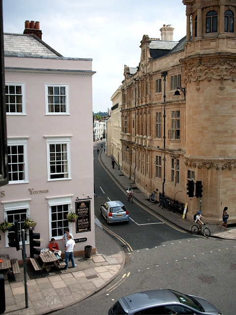 Holywell Street, Oxford. Looking east down Holywell Street. On the left is the King's Arms pub and on the right the History Faculty, formerly the Indian Institute.